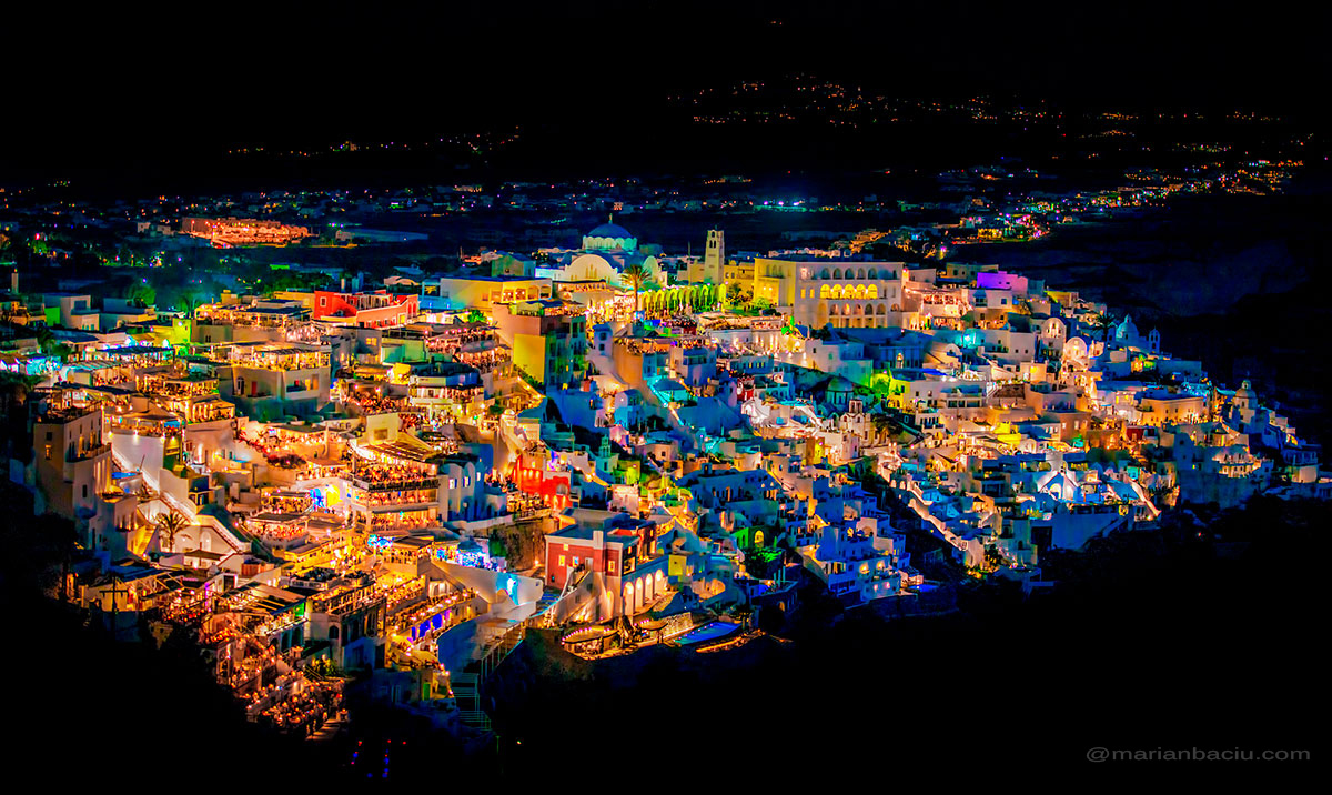 photographer Marian Baciu